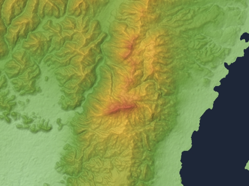 Mount Hiei (Hiei-zan) in the border between Kyoto and Shiga Prefectures, Honshu, Japan.